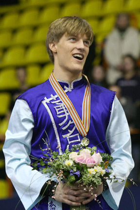 Tomas Verner on the men's podium at the European Championships 2008